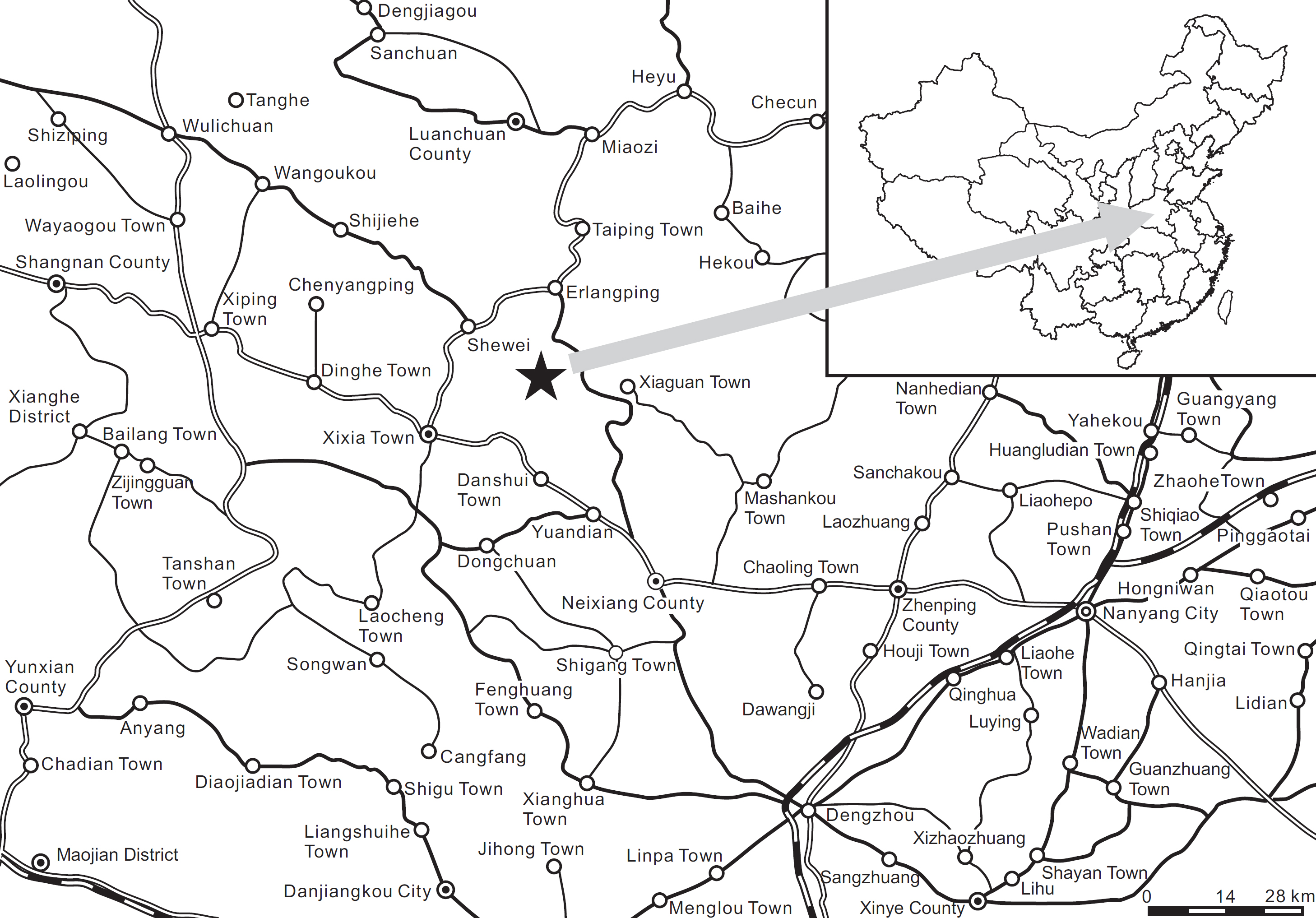 The type locality of Xixiasaurus henanensis gen. et sp. nov.; lower to middle part of the Majiacun Formation (Upper Cretaceous: Coniacian–Campanian). The solid pentagon represents the fossil site near Songgou Village, Henan Province.